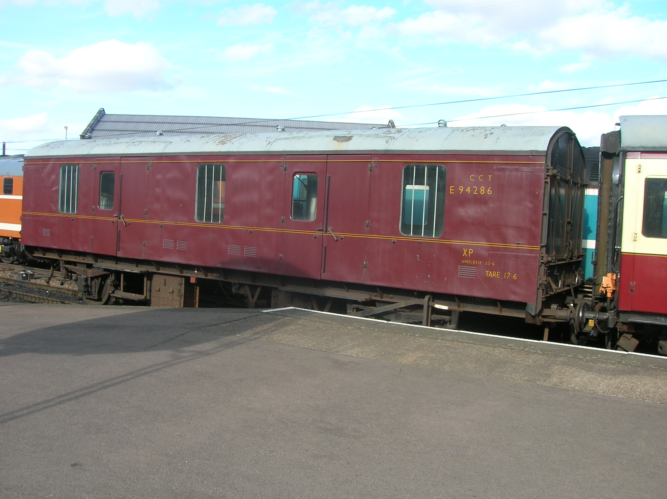 The Great Central Railway's fire van, used on trains in the summer months.